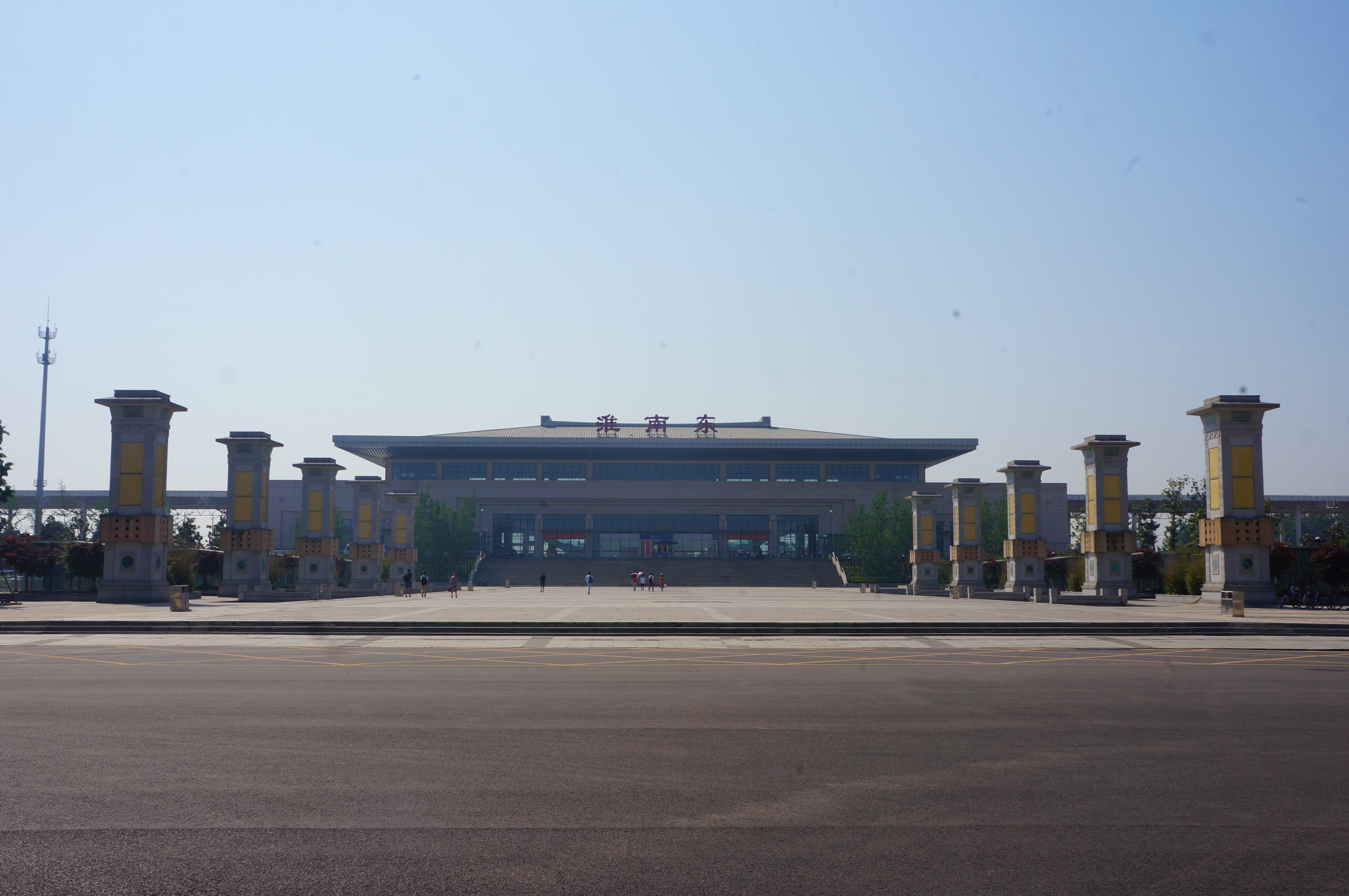 201705 Facade of Bengbudong Station. I directly headed to Huainandong Station after getting out off the train at Huainan Station in order to exchange some sleeping time in the waiting room of Huainandong Station